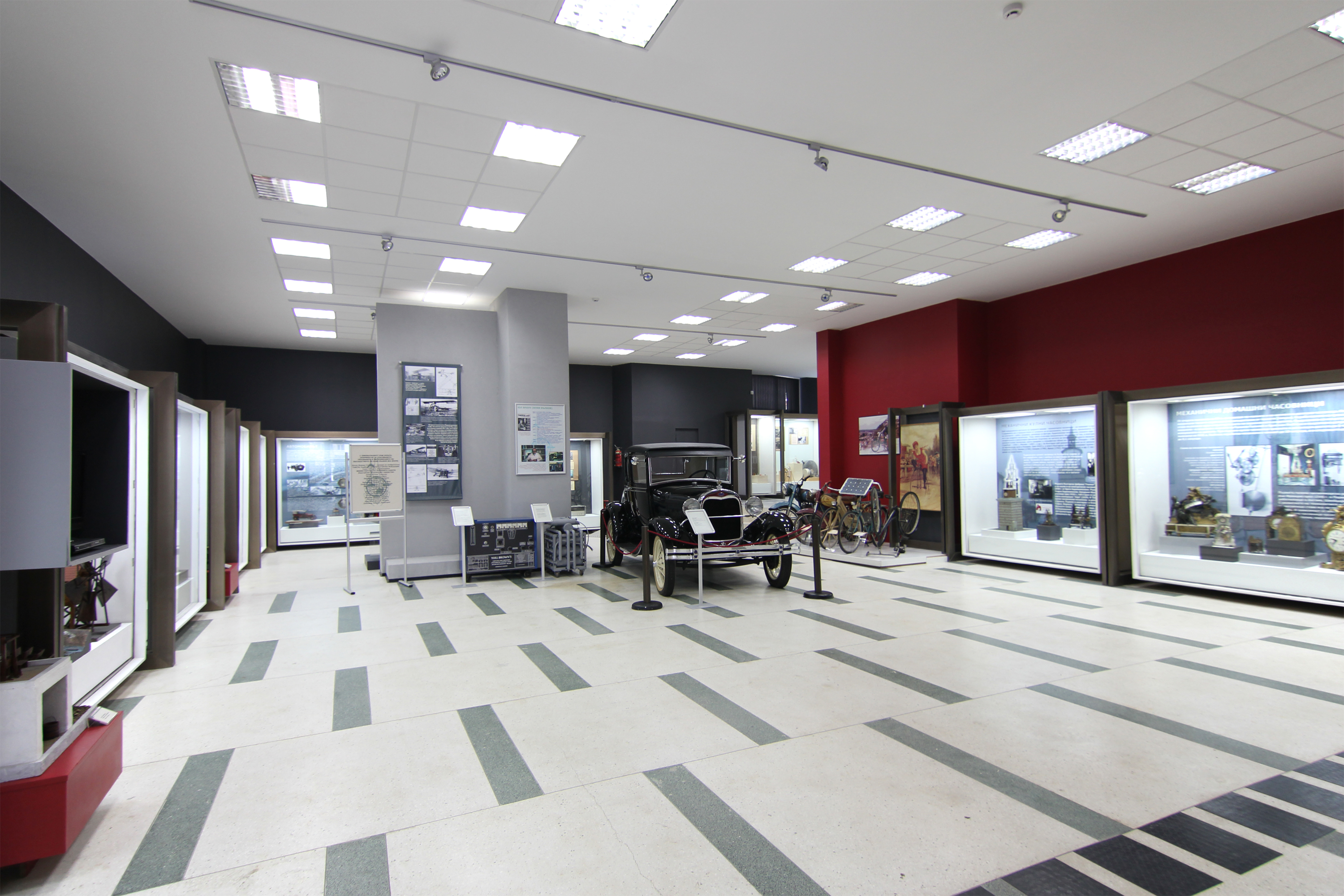 National Politechnical Museum, Sofia, Bulgaria